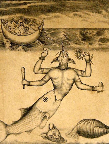 The following illustrations are from the book entitled "The Ten Principal Avataras of the Hindus: A Short History of Each Incarnation and Directions for the Representations of the Murtis as Tableaux Vivants" by Sourindo Mohun Tagore, published in 1880 in Calcutta.